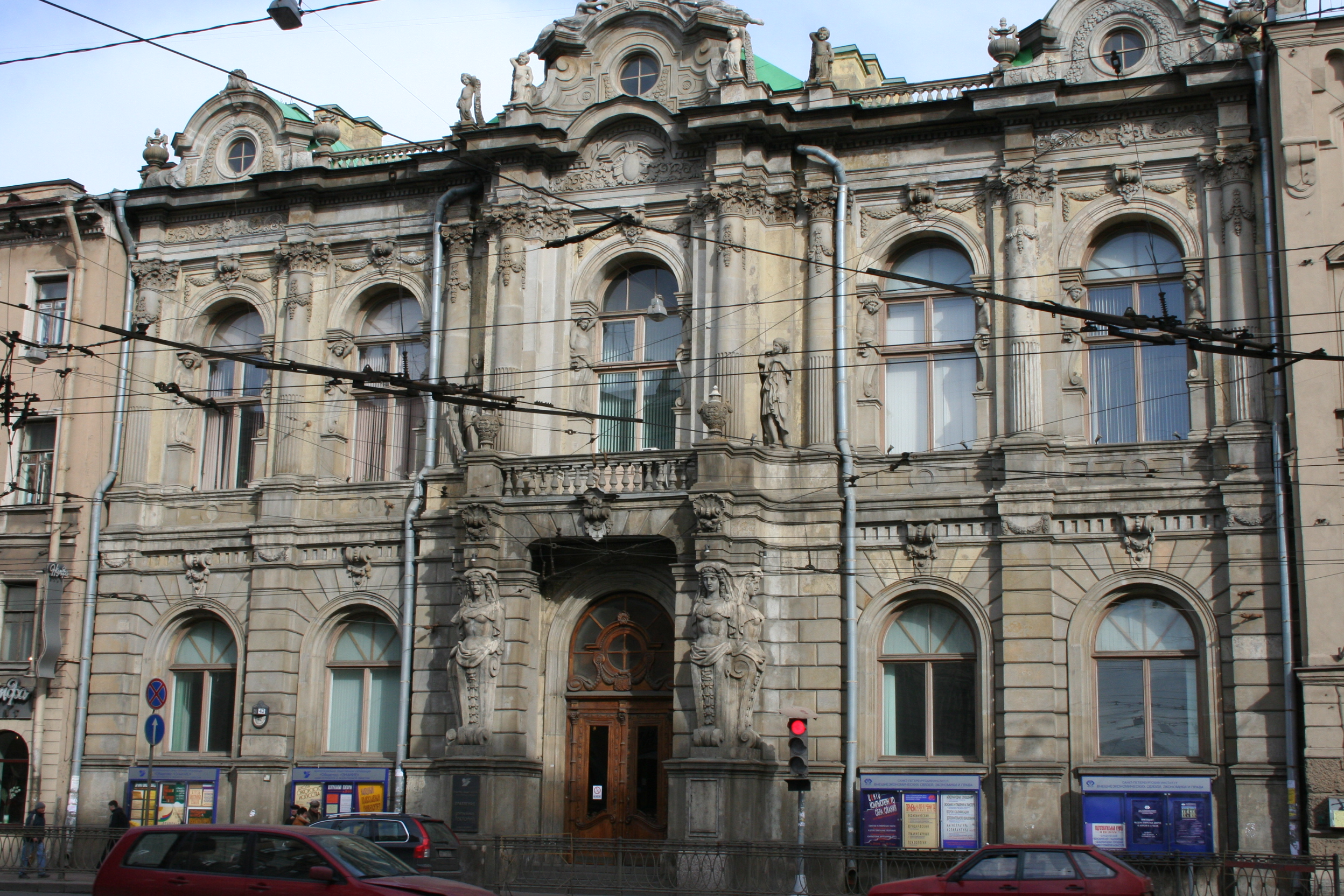 Yusupov Palace on Liteiny Prospekt 42